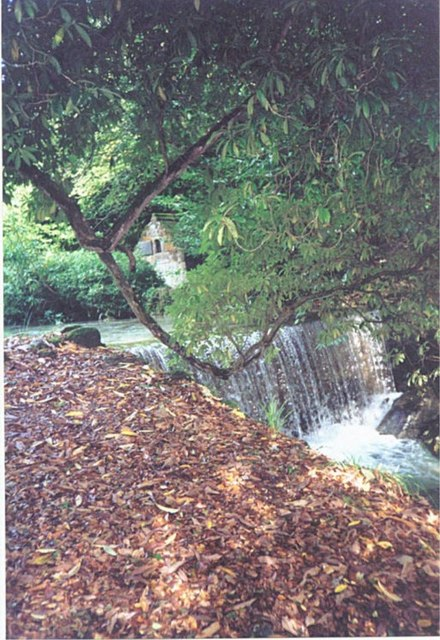 Menacuddle Well This is in a beautiful secluded place next to a main road,very quiet and peaceful.